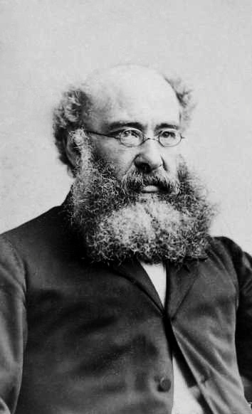 Portrait of Anthony Trollope (1815-1882), english writer